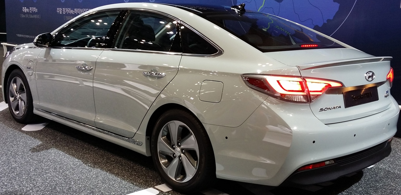 Hyundai Sonata PHEV